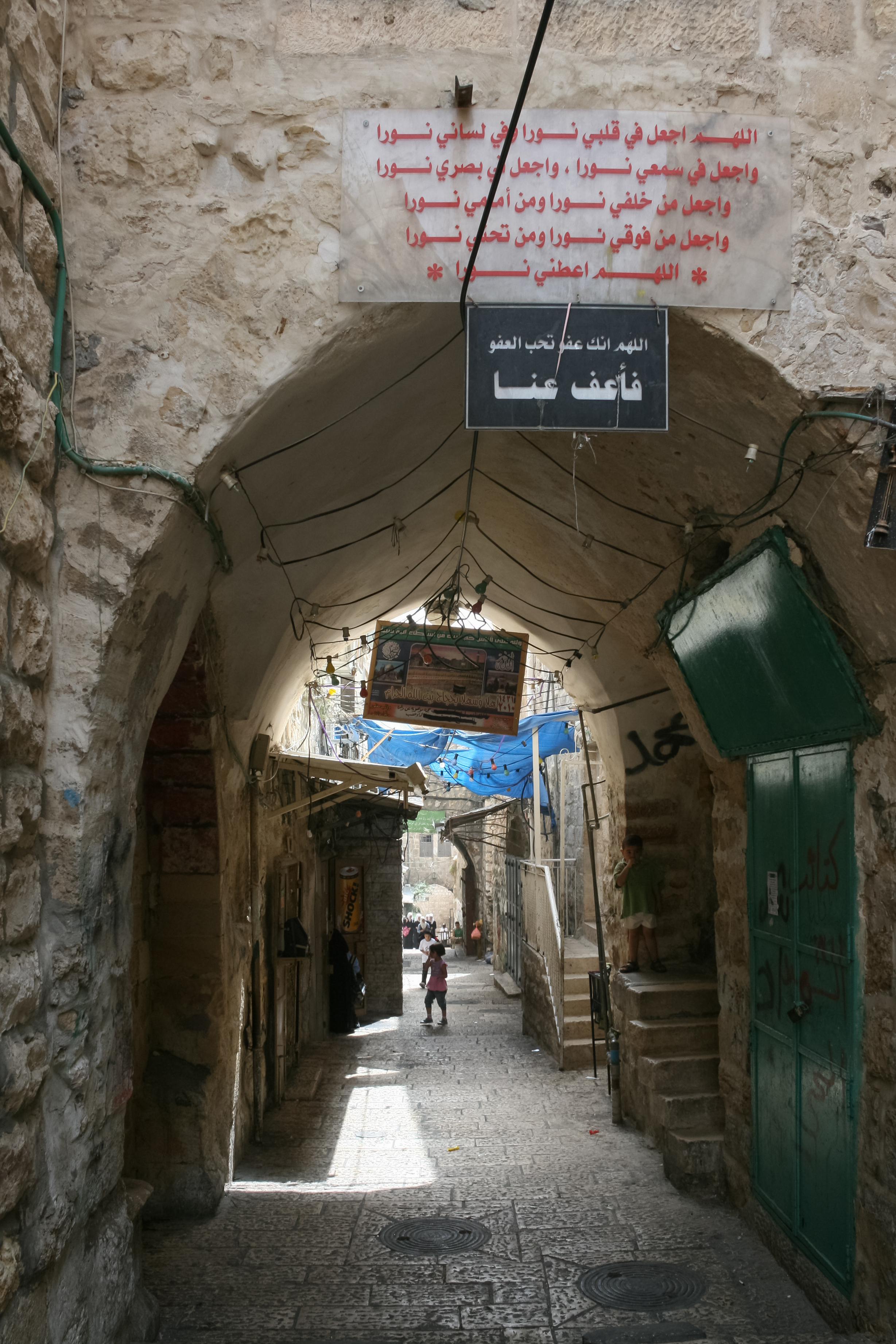 Old Jerusalem, Herod's Gate ascent